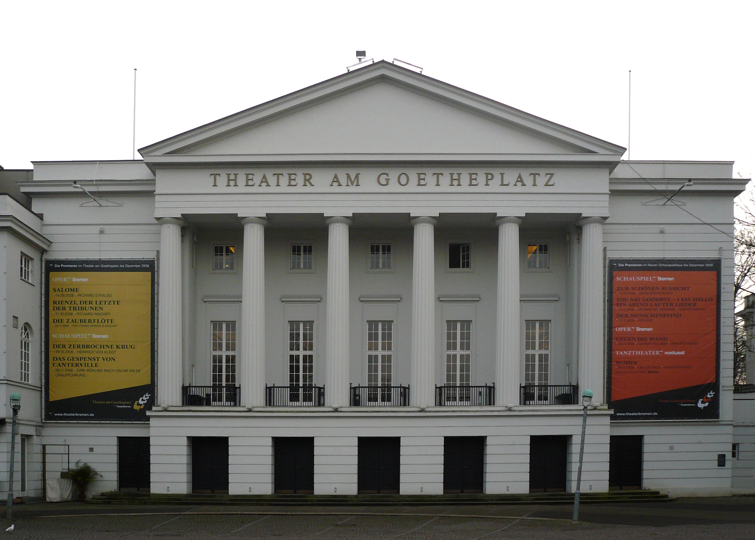 The Theater at the Goethe square in Bremen. It is one of the playhouses of the Theater Bremen.